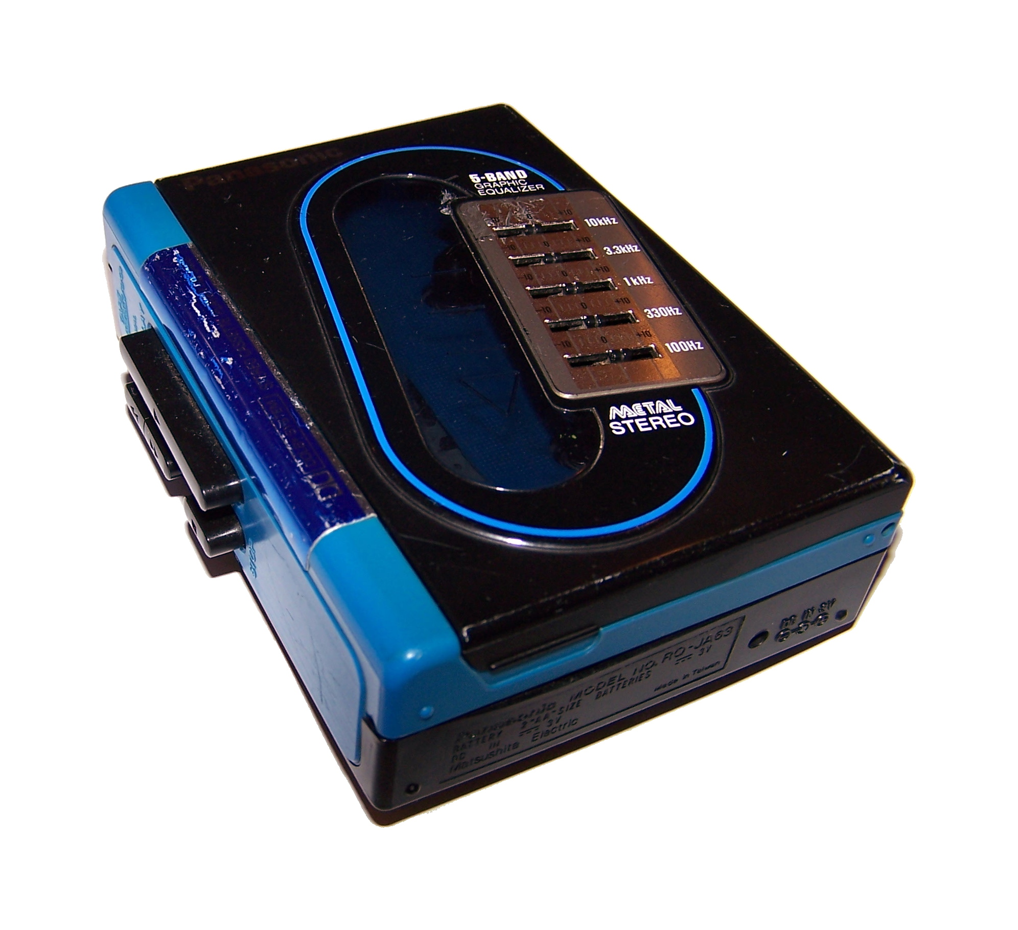 Blue Panasonic Stero Cassette Player RQ-JA63.